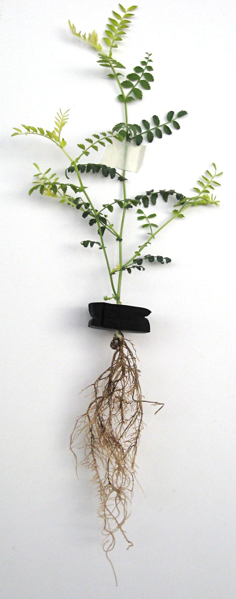 Cicer arietinum (chickpea) plant with root rot and resulting discolouring of leaves.